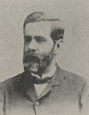 Antonio Joseph portrait